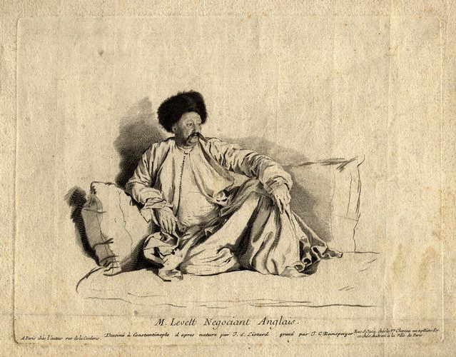 Portrait of English Turkey merchant Francis Levett, attired in Turkish costume, after the painting by Jean Etienne Liotard in the Louvre Museum in Paris, line engraving by Johann Christoph von Reinsperger. 'M. Levett, Negociant Anglais' . Francis Levett of Nethersole, Kent, England, was chief representative of the Levant Company in Constantinople (Istanbul) from 1737–1750. Levett was also a benefactor of Morden College, London.